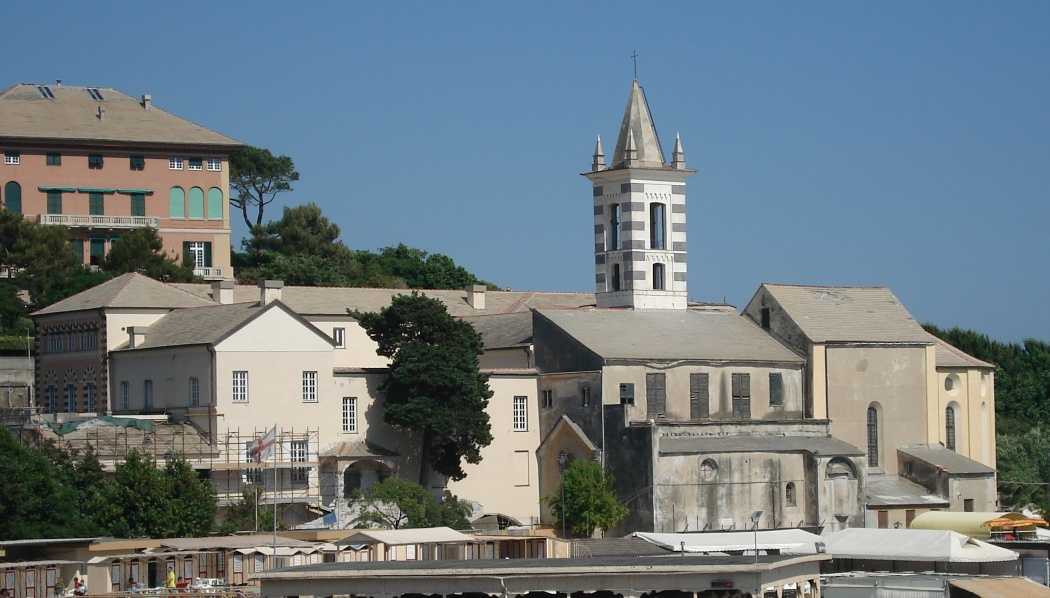 San Giuliano Abbey in Genova